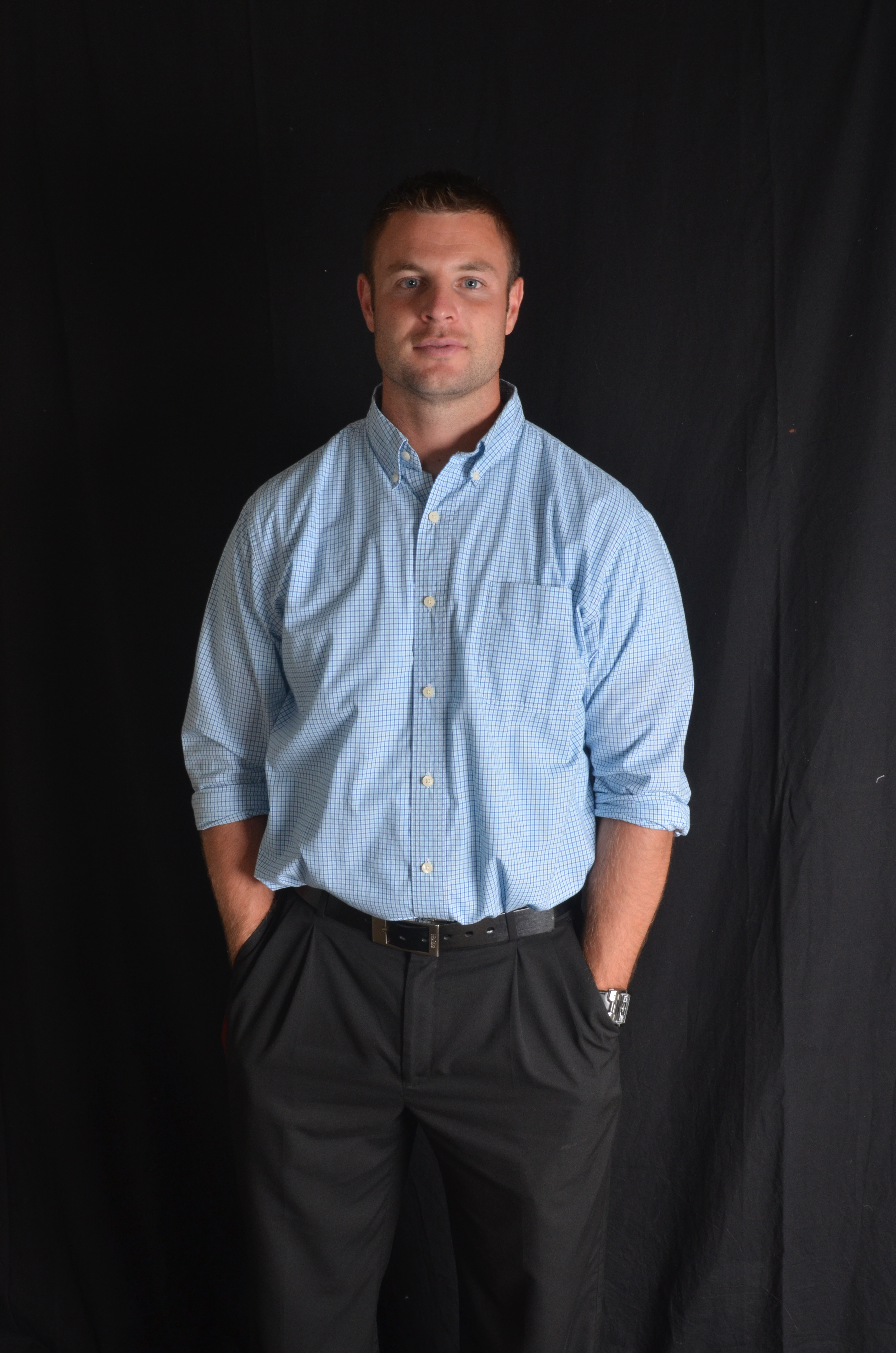 Photo of Ben Mauk in formal attire